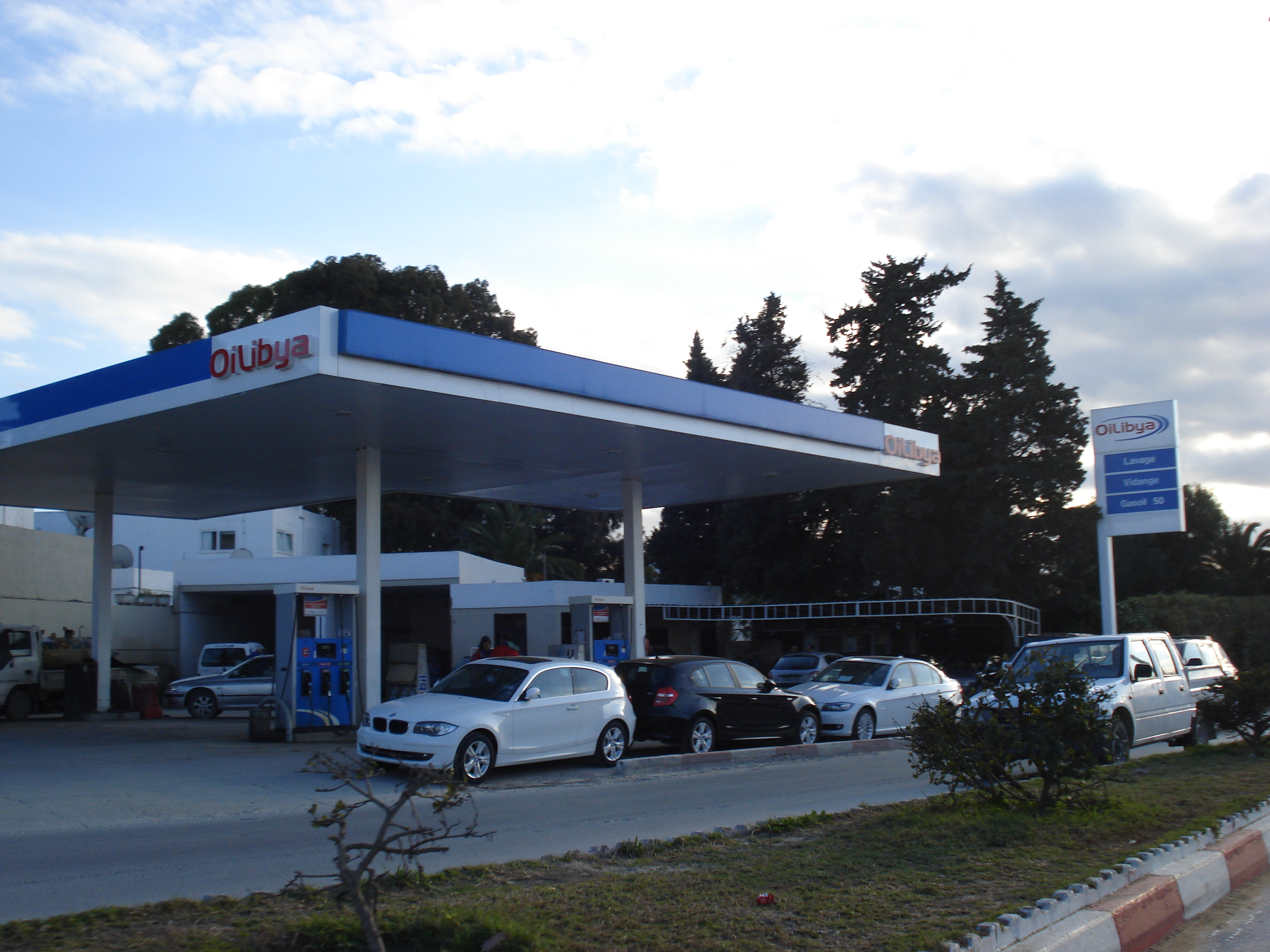 OiLibya petrol station in La Marsa, Tunisia